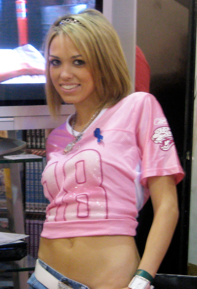 American porn actress Jenny Hendrix.